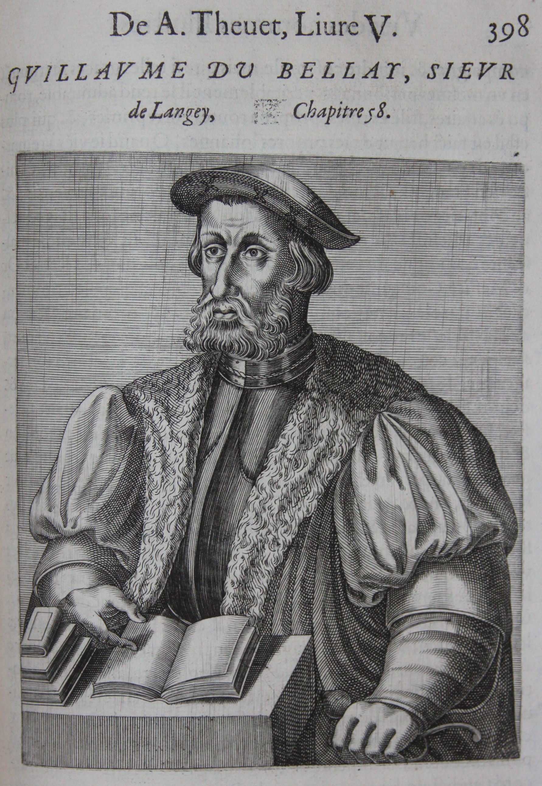 Guillaume du Bellay, Pourtraits et Vies des Hommes Illustres, André Thévet, Paris 1584